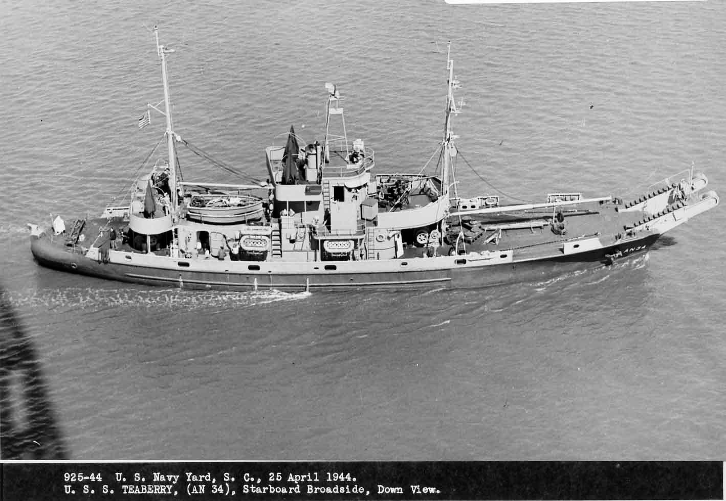 Starboard broadside, down view of USS Teaberry (AN-34) underway in the Cooper River off Charleston S.C,, 25 April 1944. Photo taken from Cooper River Bridge. Navy Yard Chaleston, S.C. photo # 925-44